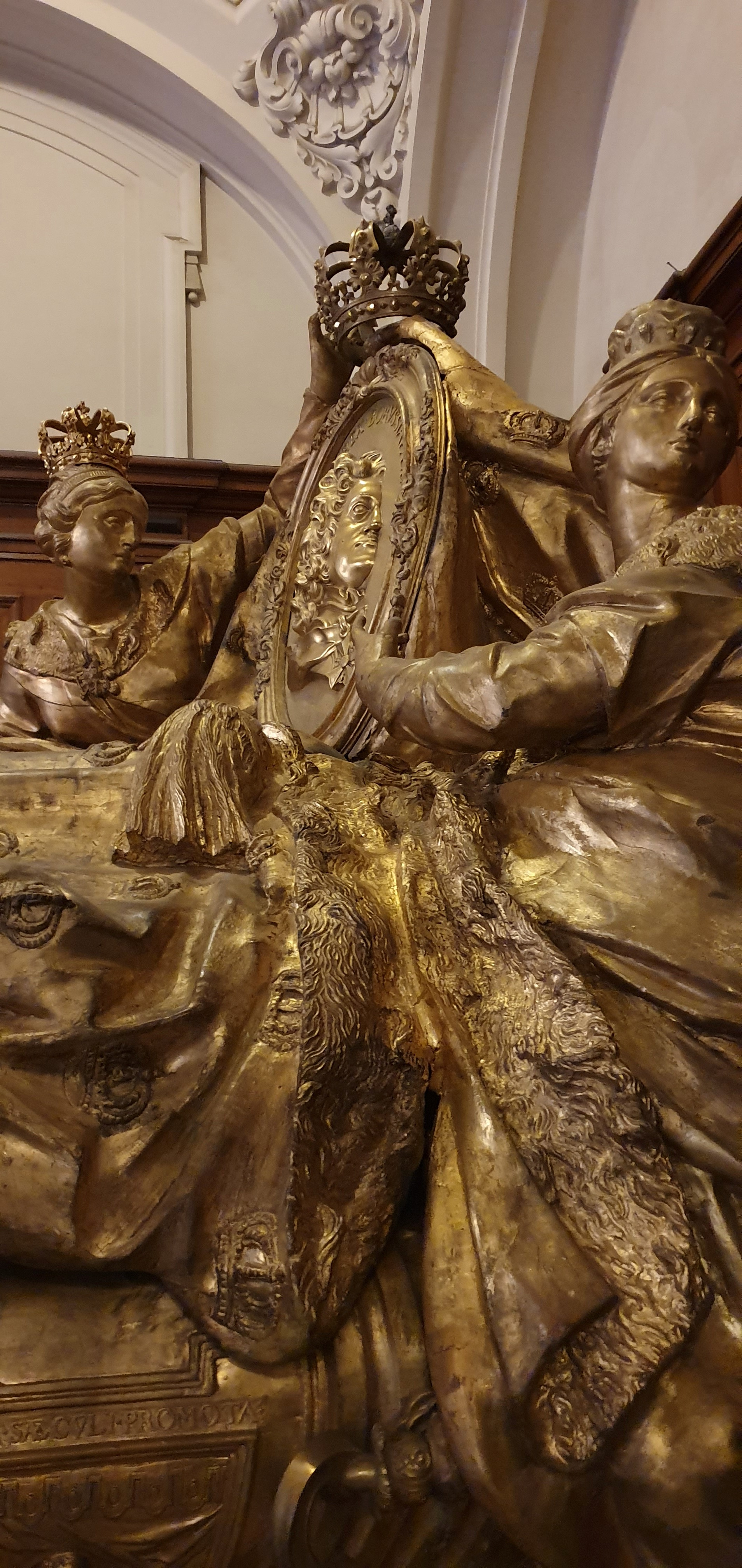 Ceremonial sarcophagus of Friedrich I of Prussia (Berlin Cathedral)